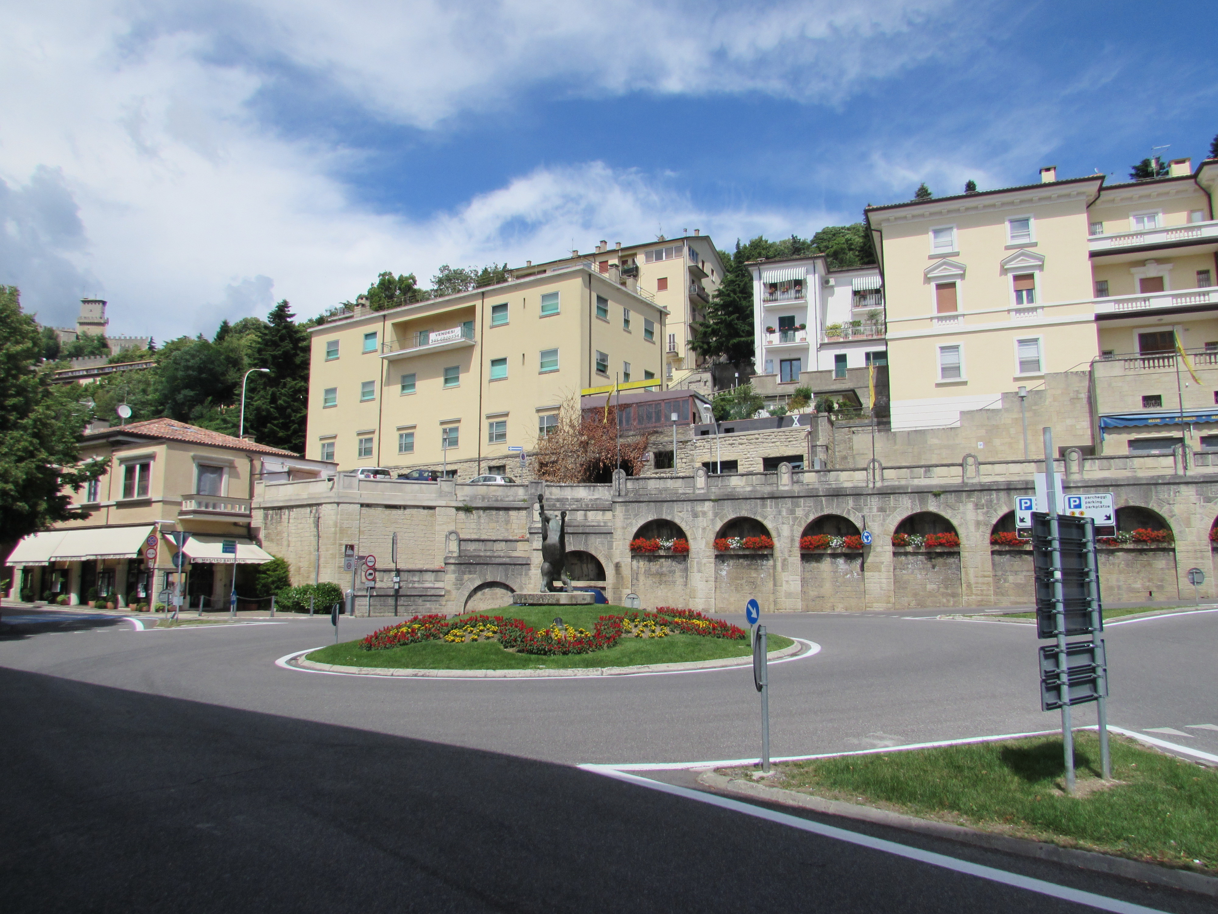 Street in San Marino